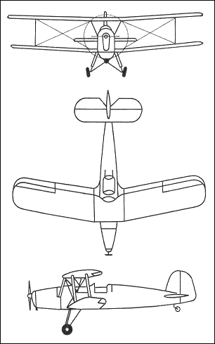 The German Bücker Bü 131 "Jungmann" (Young man) was a 1930s basic training aircraft which was used by the Luftwaffe during World War II.